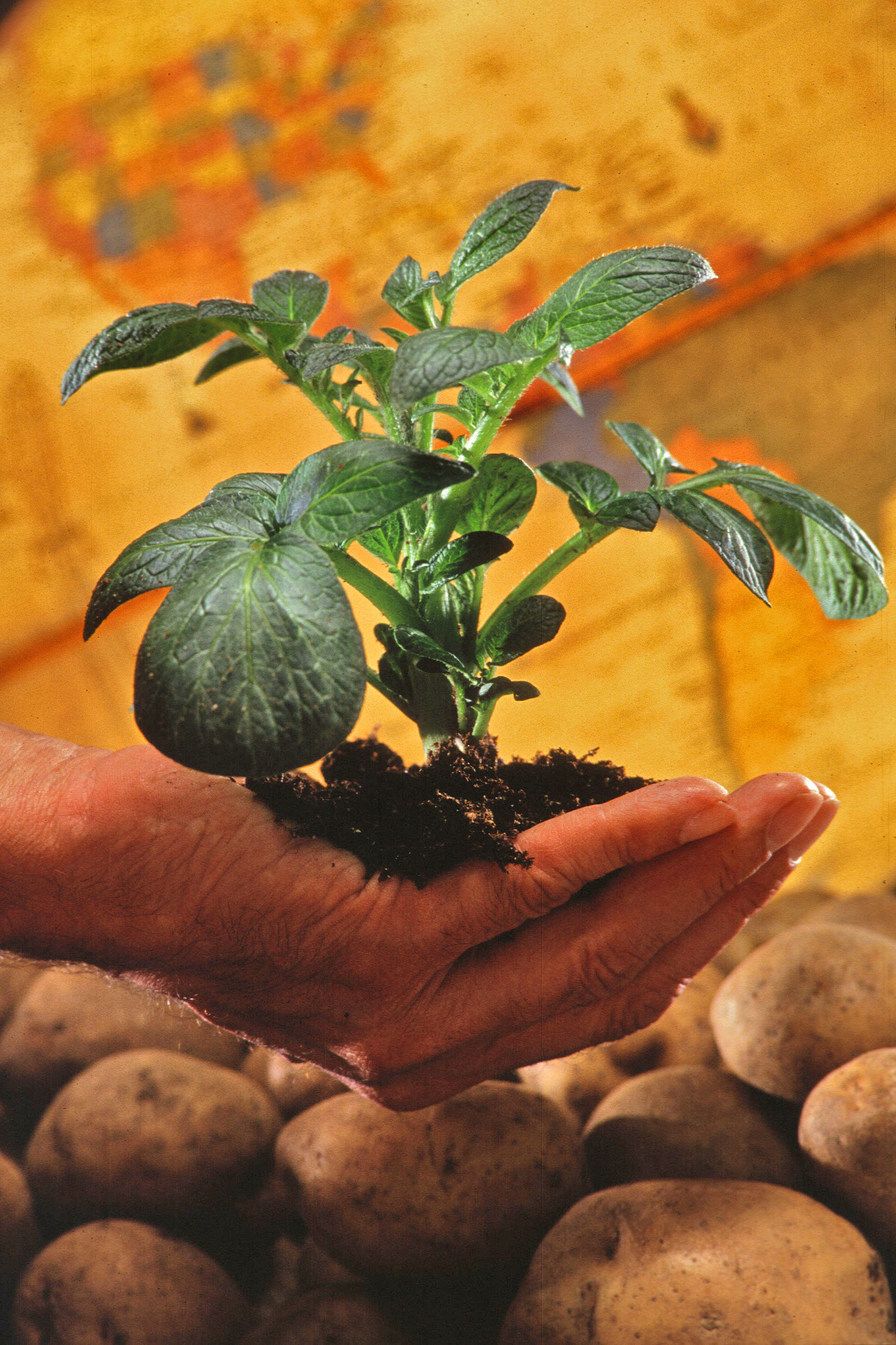 Potato plant. To ensure continuing worldwide availability of this valuable food staple, potato plant breeders must unite desirable processing and fresh-market characteristics with late blight resistance.